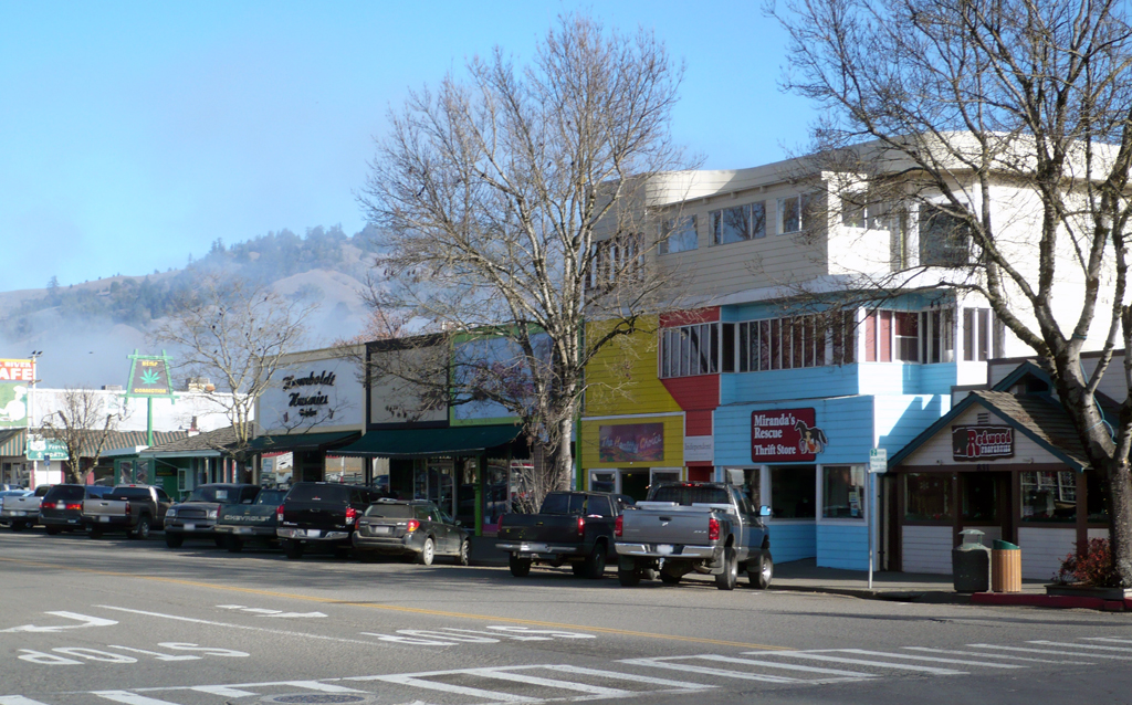 A row of storefronts on Redwood Drive at Sprowl Creek Road and a view of the hills surrounding Garberville, California.